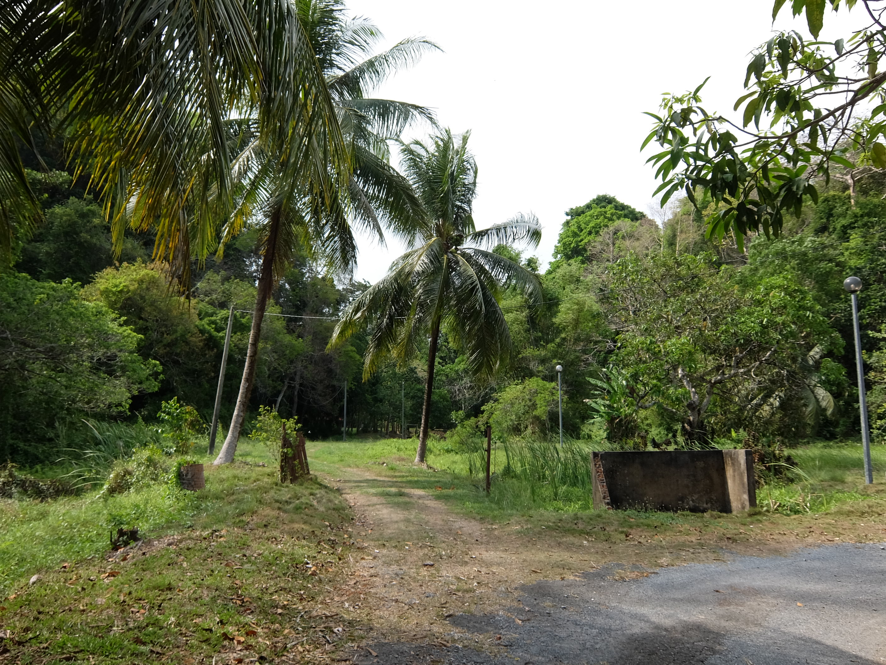 Kubu Hill Recreational Forest, Kuala Perlis, Perlis, Malaysia